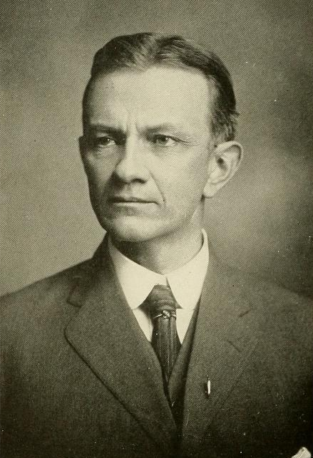 Portrait of Kenyon L. Butterfield, President of Massachusetts Agricultural College, 1906-1924, Massachusetts Agricultural College Index of 1922